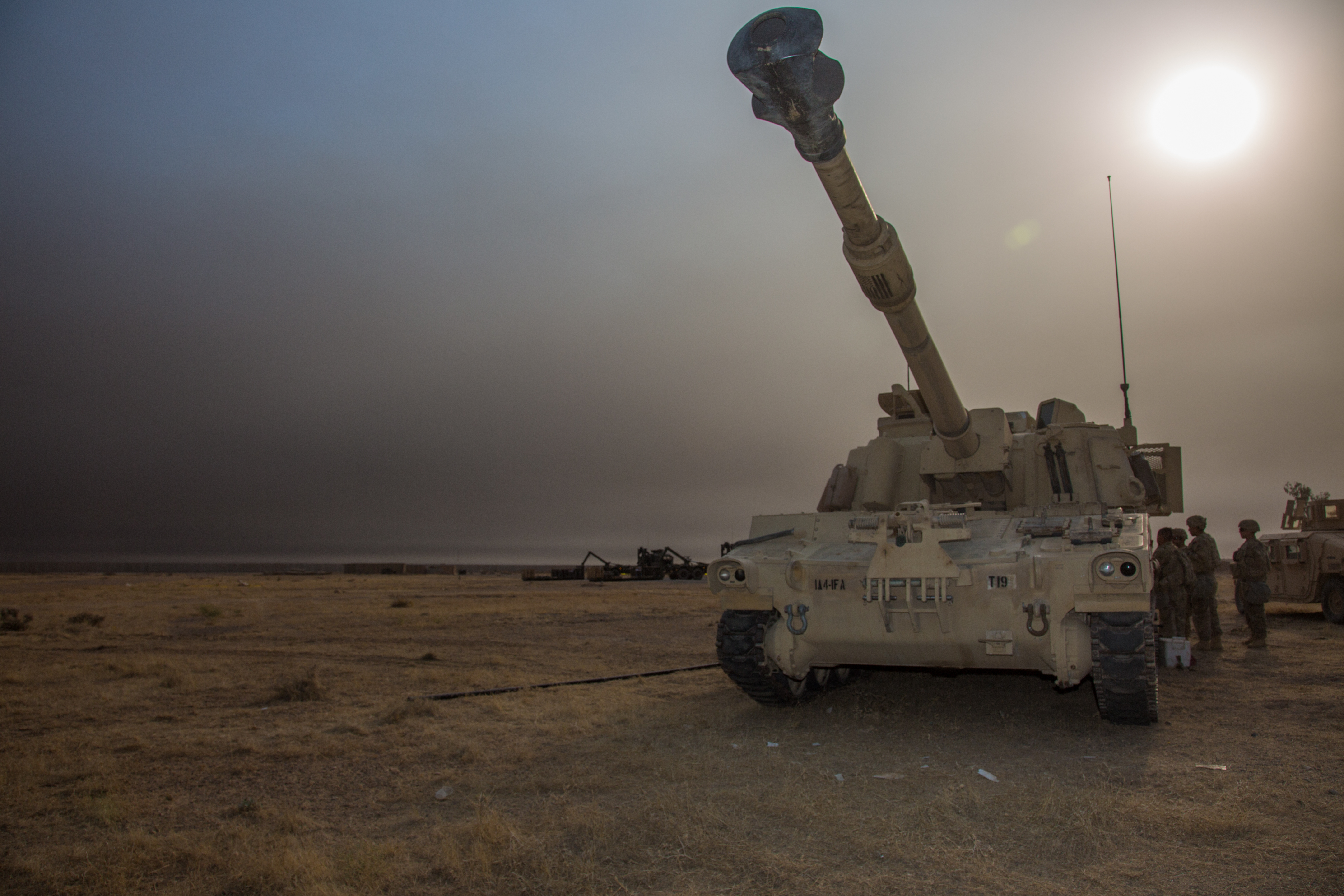 A U.S. Army M109A6 Paladin waits to be fired in support of day-one of the Iraqi security forces’ advance toward Mosul to retake the city from the Islamic State of Iraq and the Levant at Qayyarah West, Iraq, Oct. 17, 2016. U.S. Soldiers conducted numerous fire missions, denying ISIL safe haven during the ISF’s advance. The United States stands with a Coalition of more than 60 international partners to assist and support the Iraqi security forces to degrade and defeat ISIL. (U.S. Army photo by Spc. Christopher Brecht)